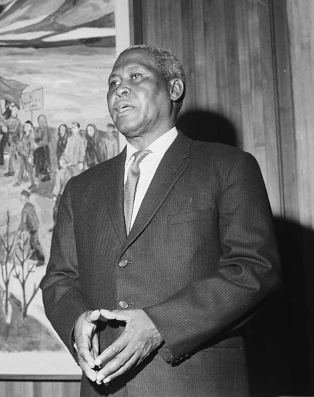 Nobel Peace Prize winner Albert Lutuli in Oslo.